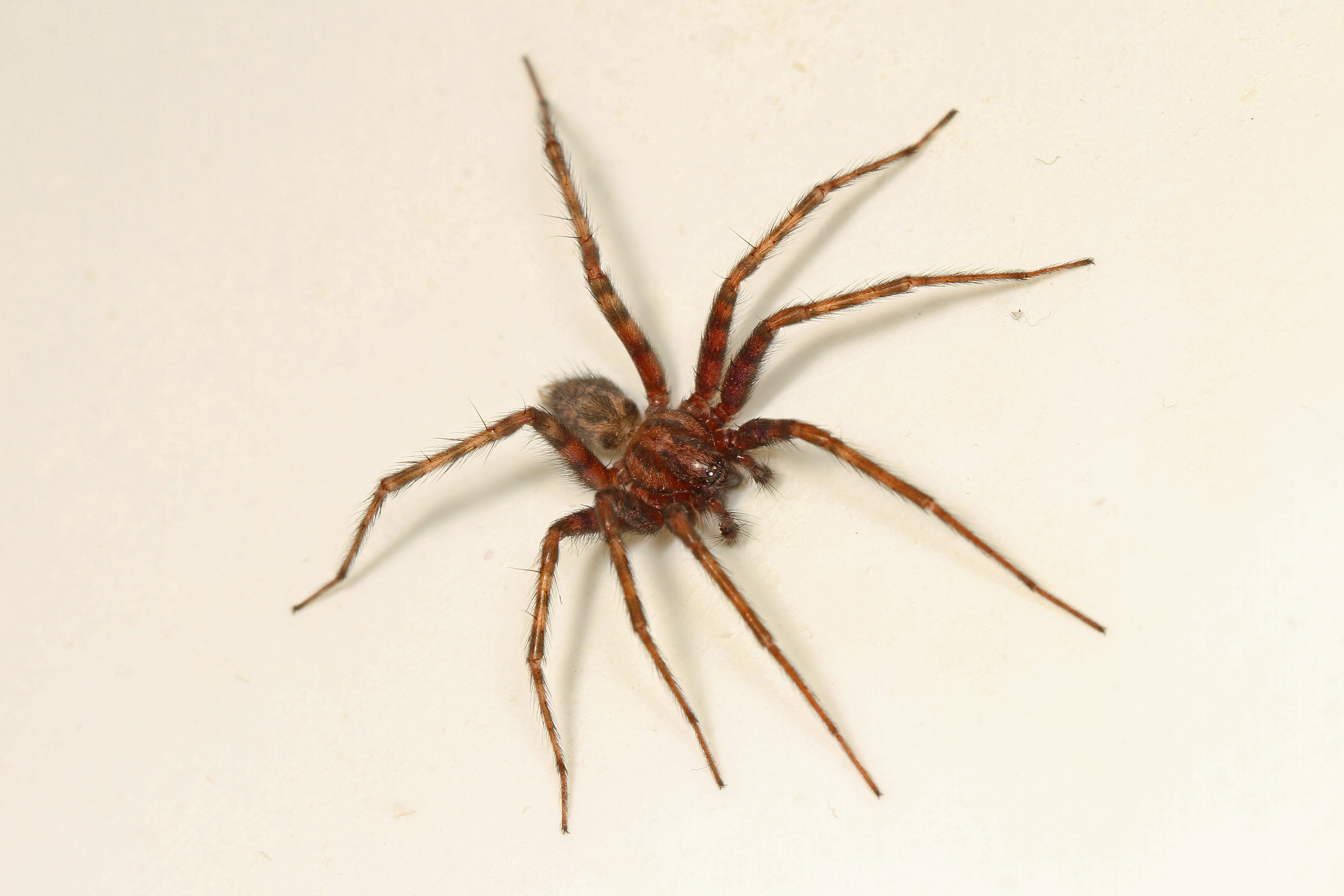 Barn Funnel Weaver - Tegenaria domestica, Woodbridge, Virginia